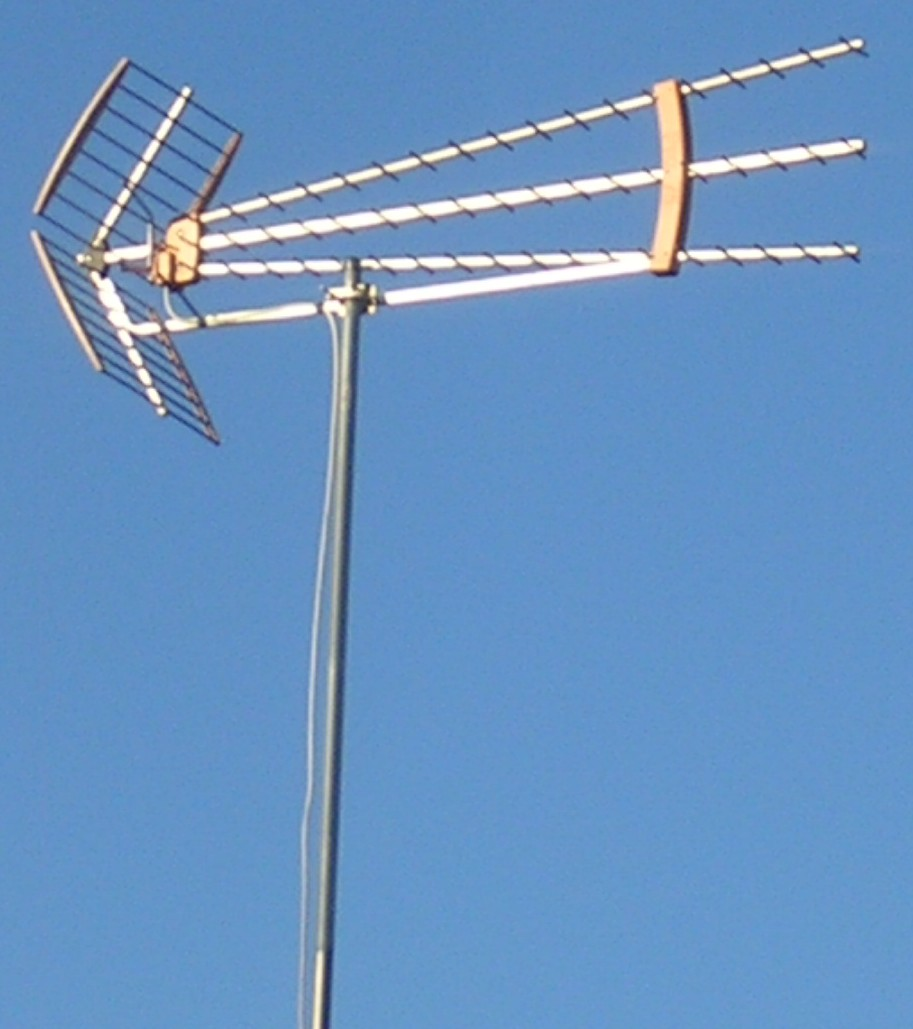 A common UHF television antenna. It consists of three Yagi antennas with a corner reflector as a common reflector.